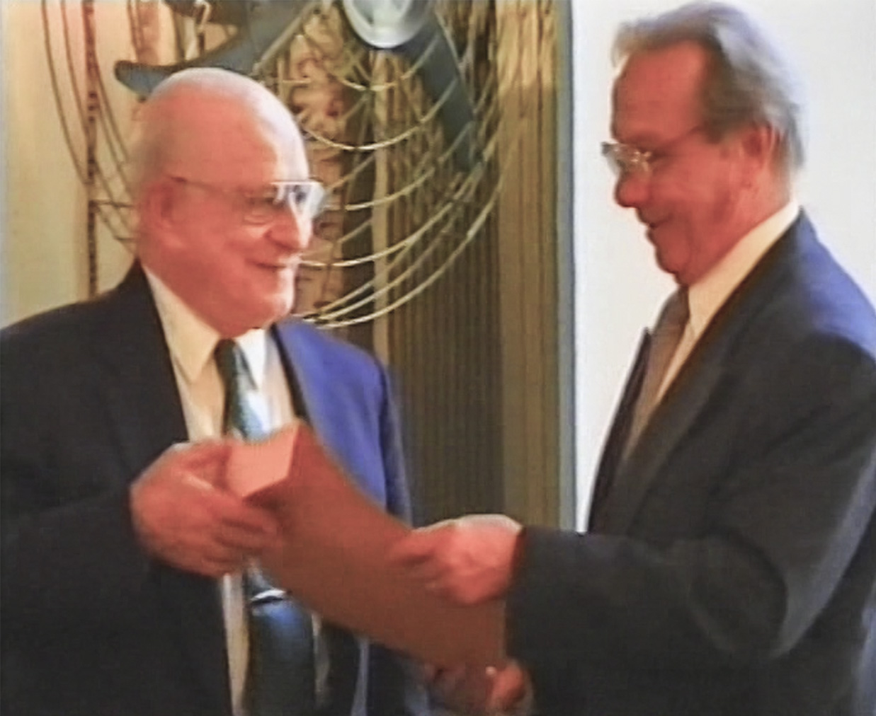 Photo during acceptance ceremony